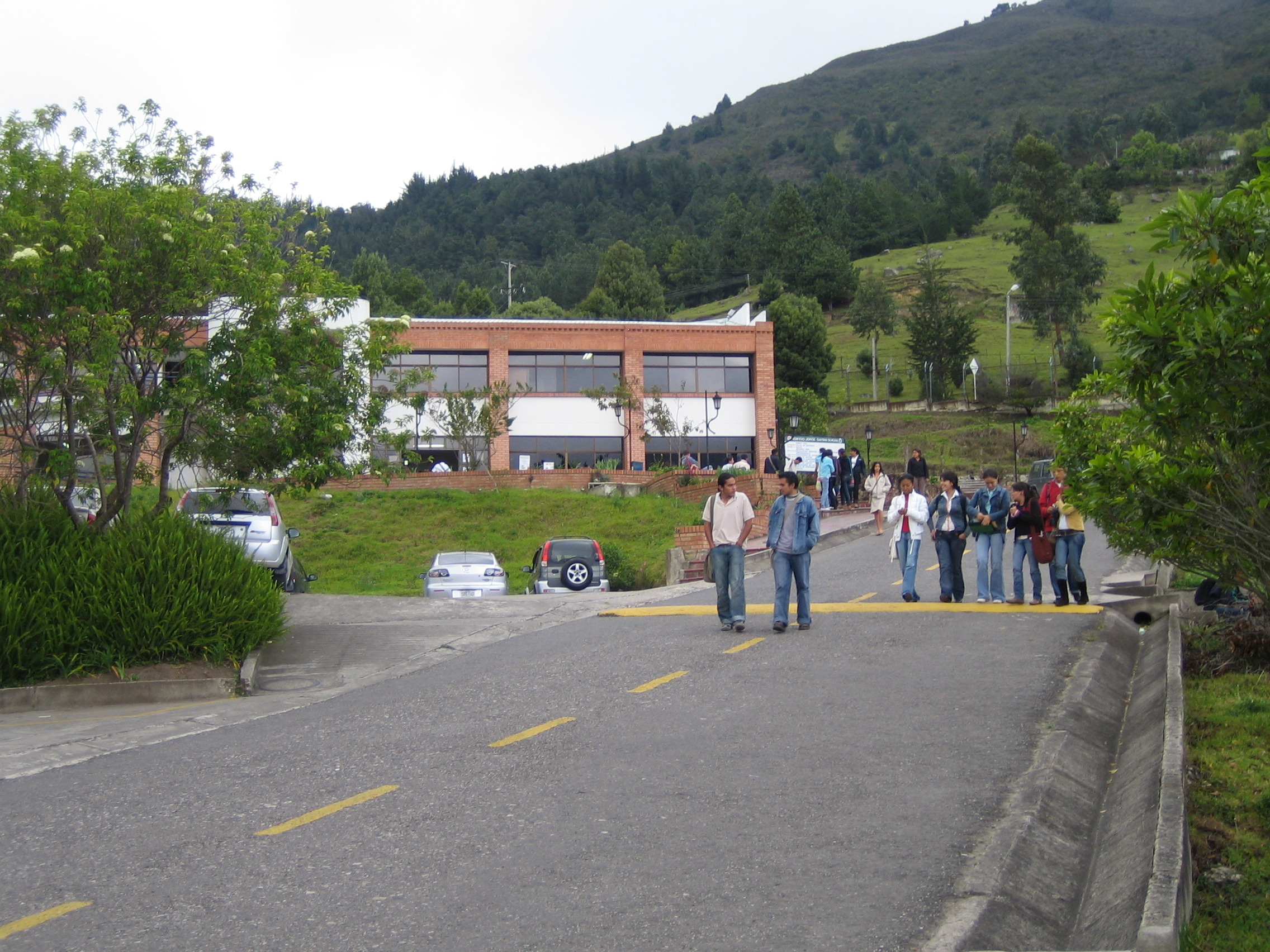 Faculty of Economy - Universidad de Pamplona - Pamplona, Norte de Santander - COLOMBIA